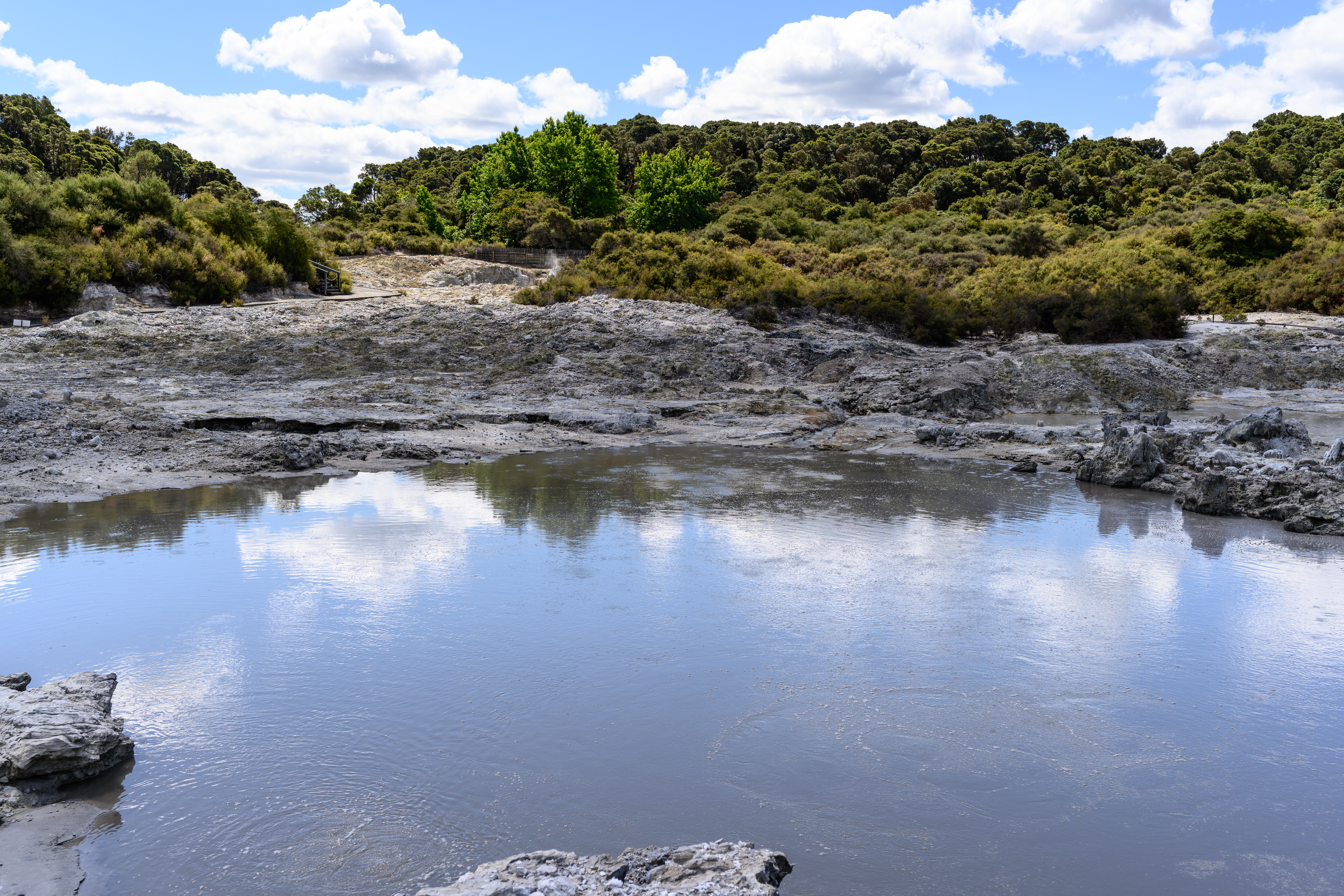 Hells Gate, New Zealand